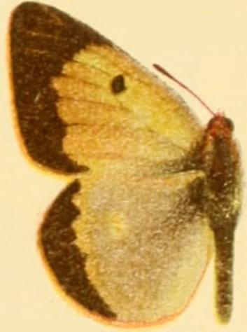 Plate from The Macrolepidoptera of the World. Vol. 1: Colias aurorina